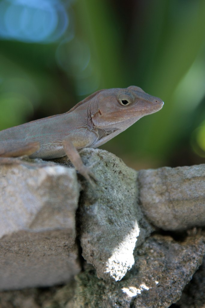 anolis cybotes on rocks